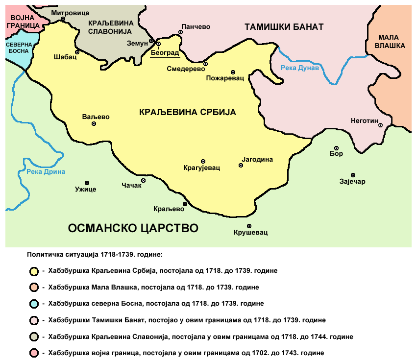 Kingdom of Serbia under Austrian administration (1718-1739).